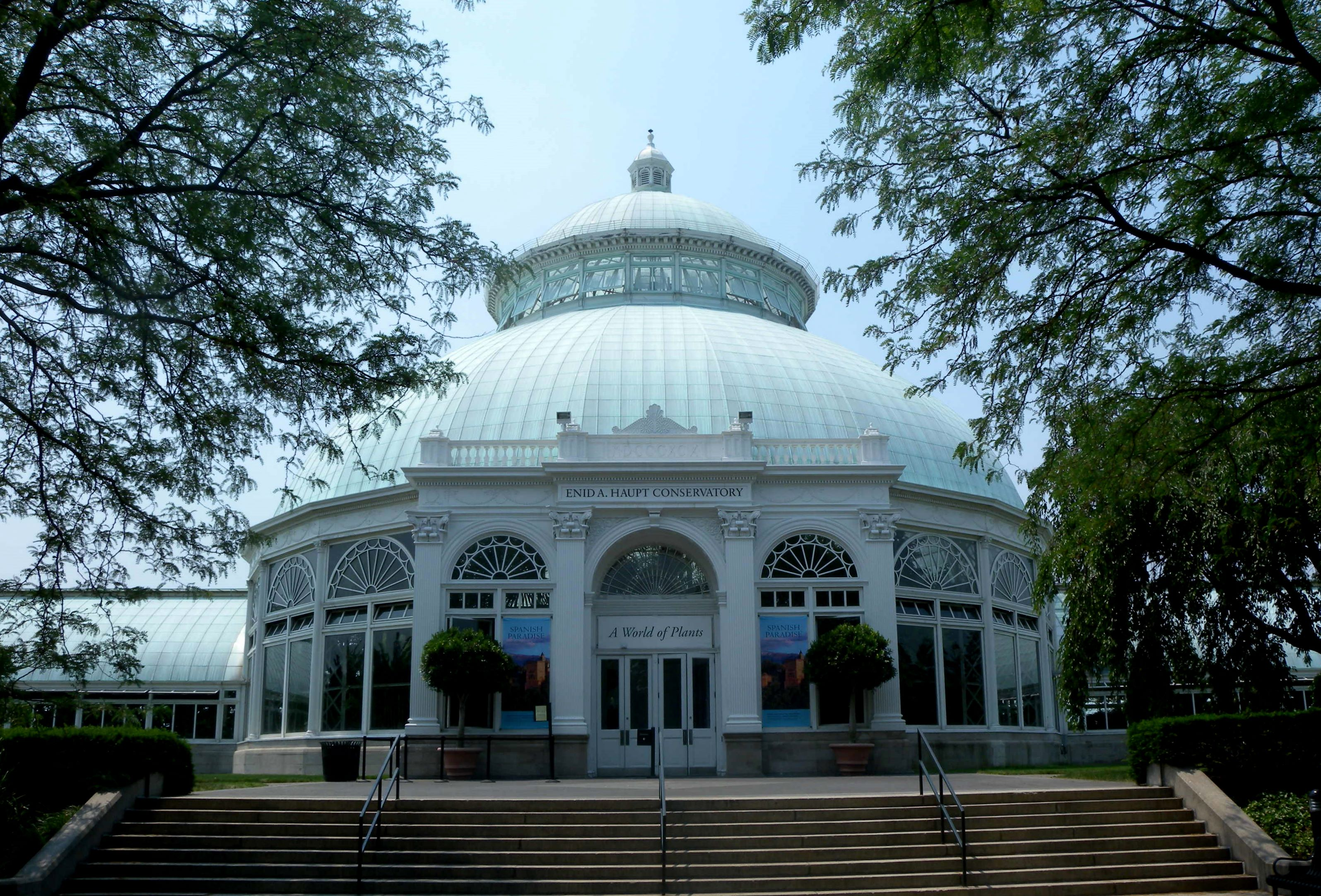 Looking west at main greenhouse dome on a hot hazy midday.